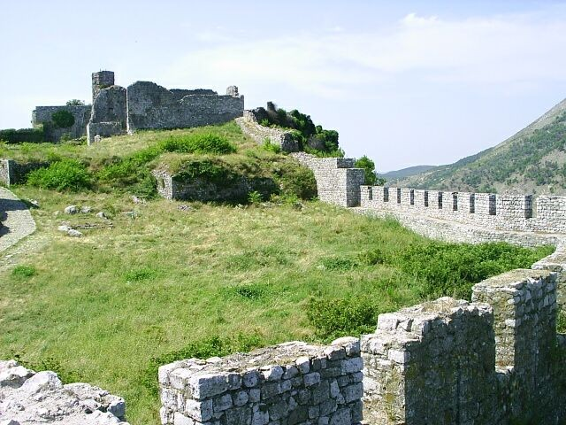 Town of Scutari, main town in northern Albania